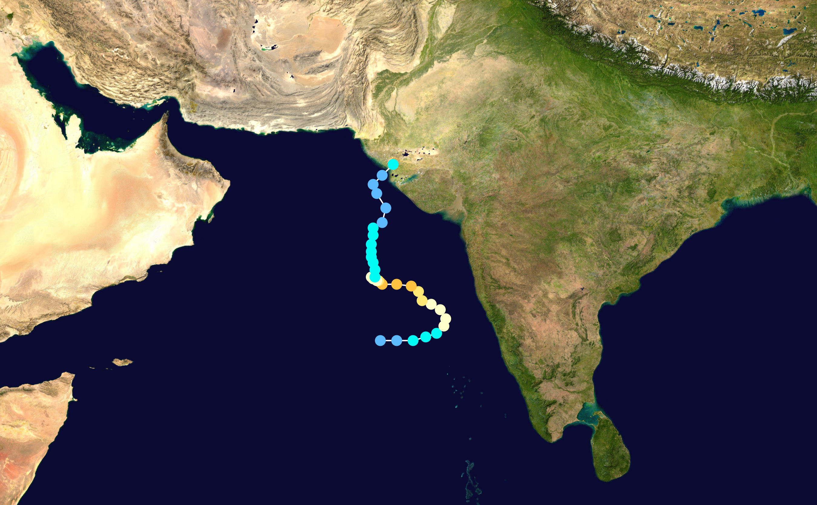 Cyclone 01A 2001 track. Uses the color scheme from the Saffir-Simpson Hurricane Scale.